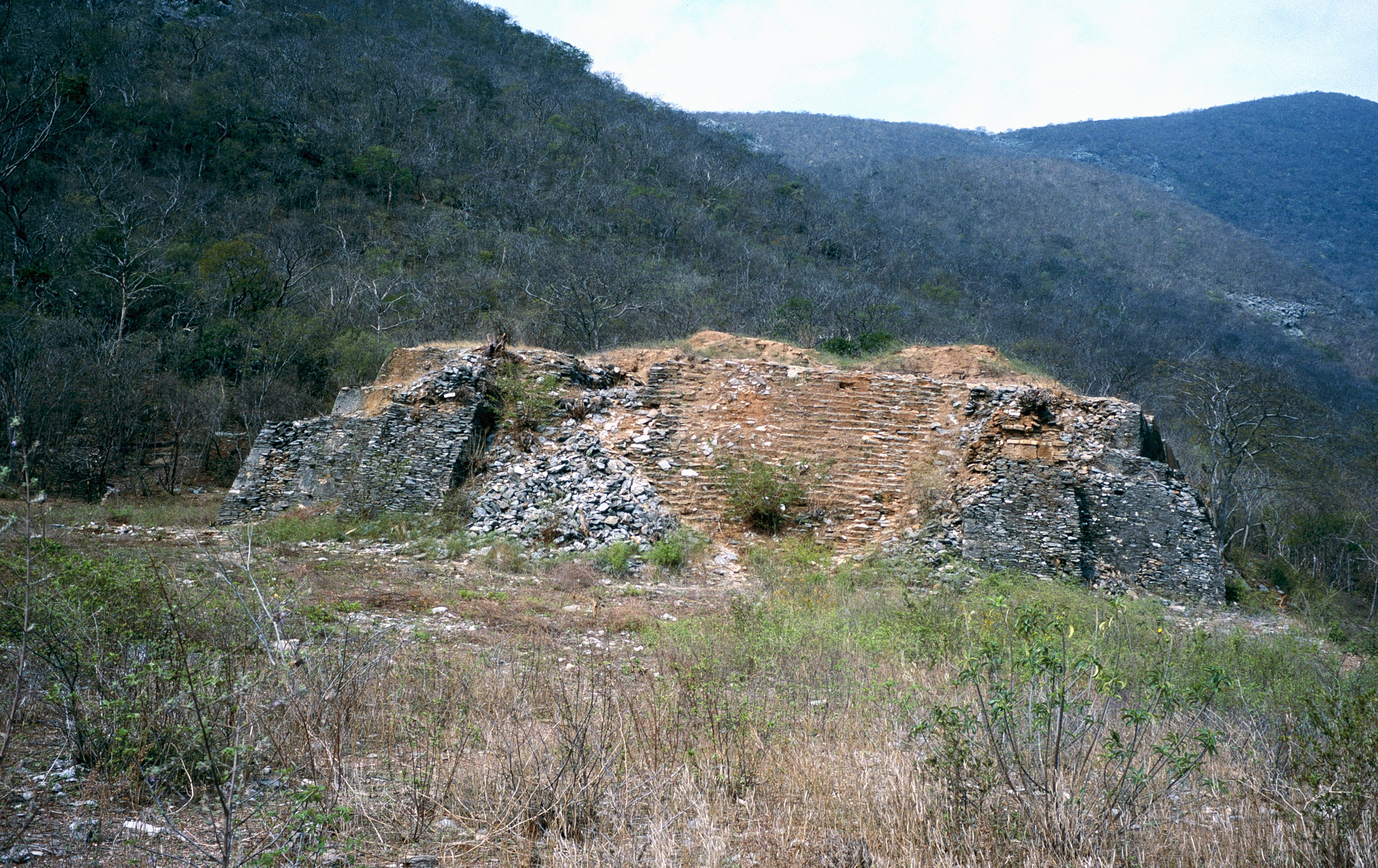 Guiengola, Oaxaca, Mexico: west pyramid